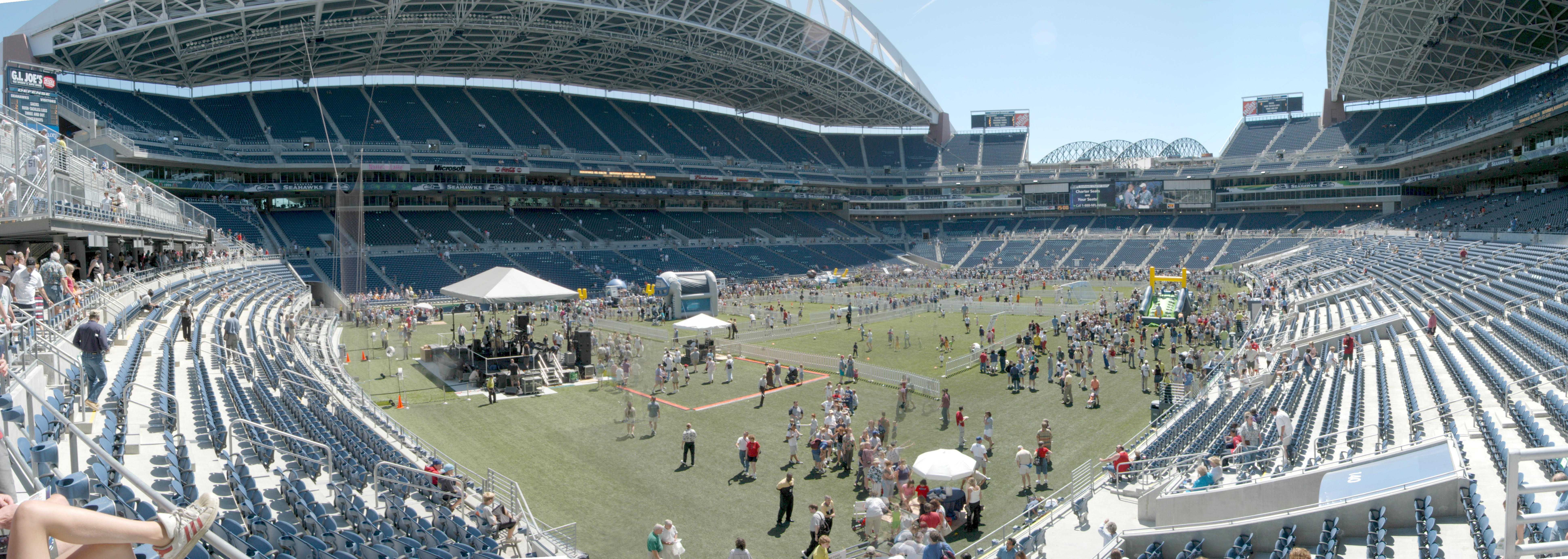 Seattle Seahawk Stadium during the Open House when it first opened.